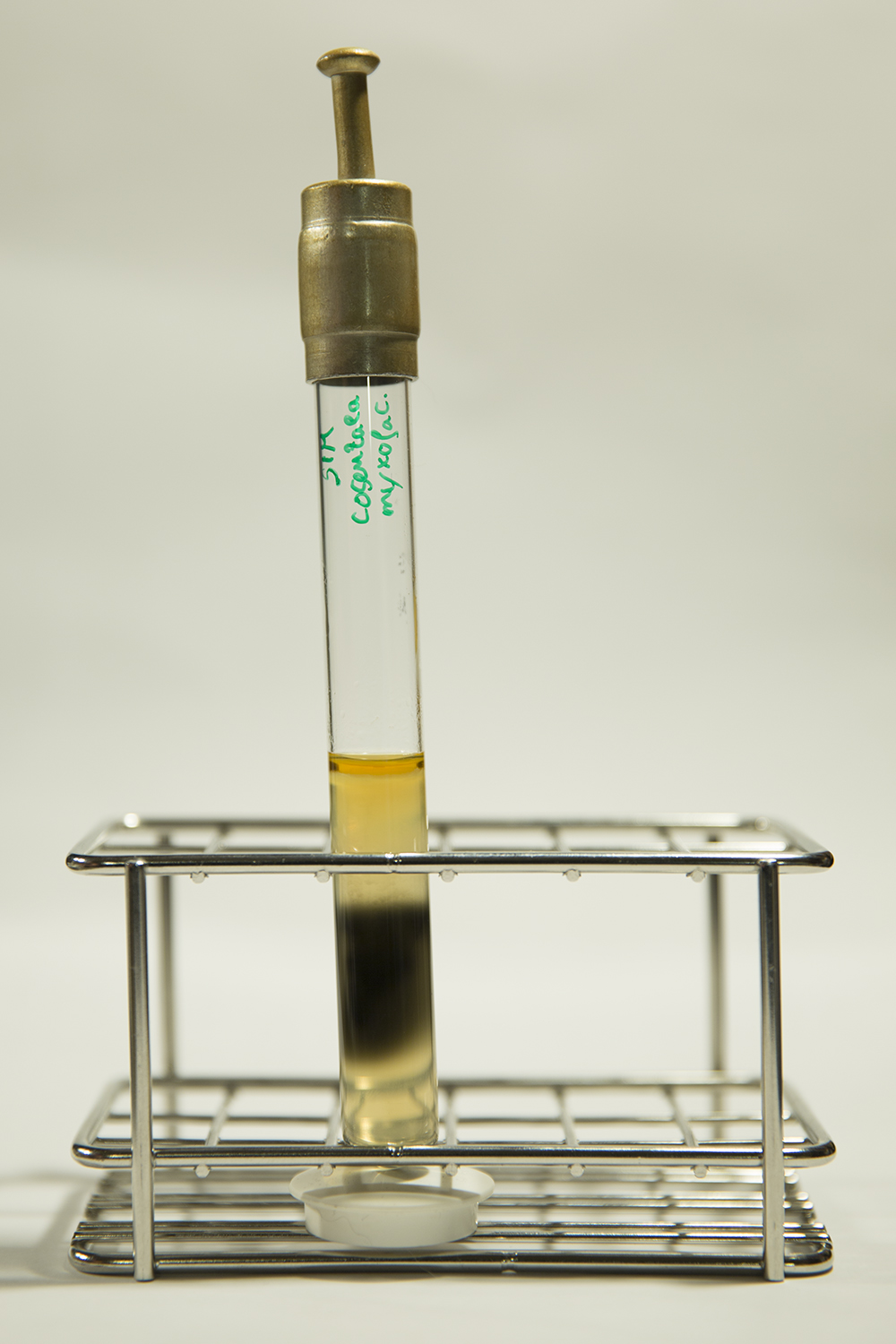 Cosenzaea myxofaciens (formerly classified as Proteus myxofaciens) in SIM agar, showing a positive result for H2S production, a negative result for the indole test (after Kovac's reagent has been added), and a positive result for motility.